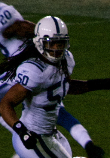 Colts vs Redskins, 2010